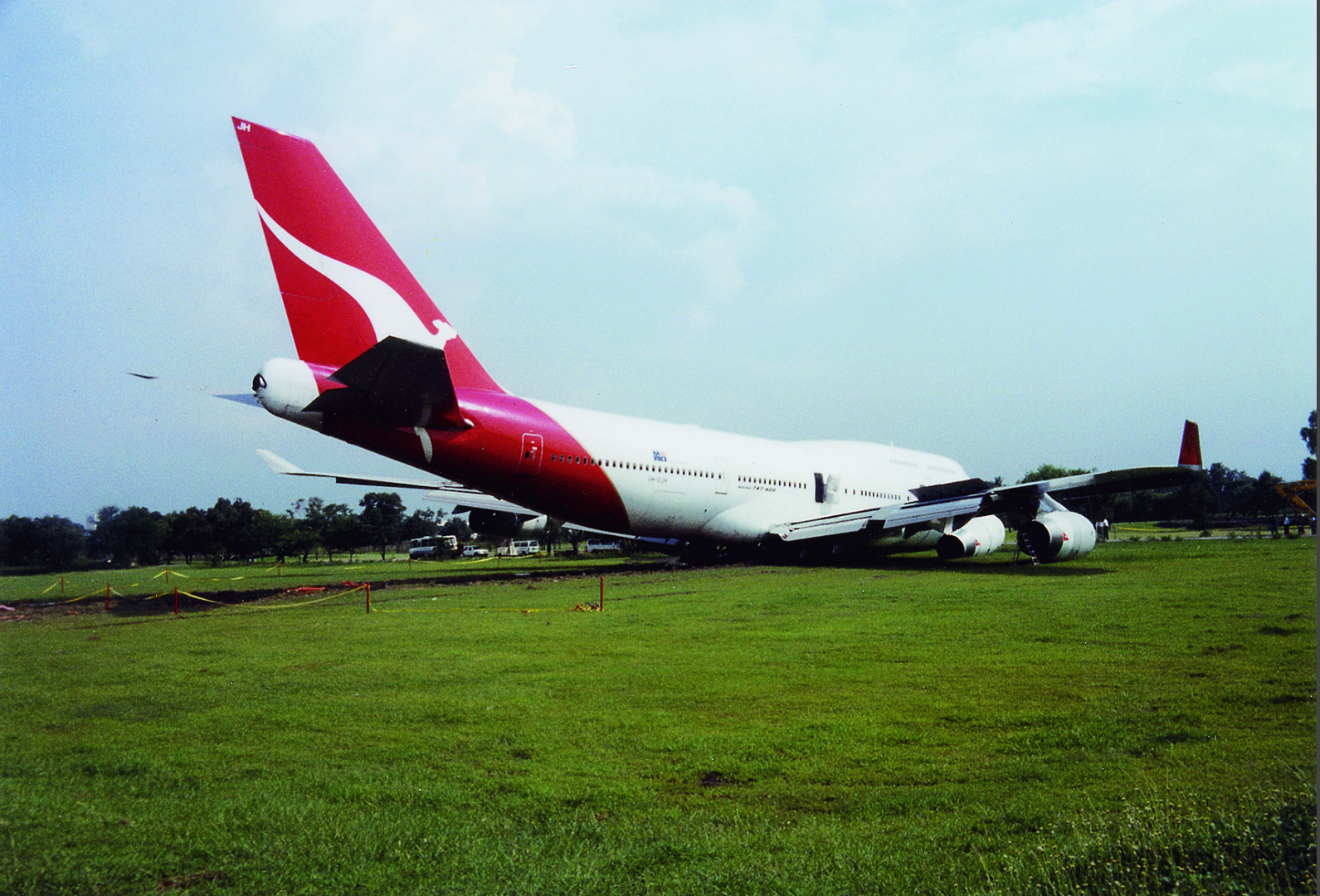 Qantas Flight 1 wreckage